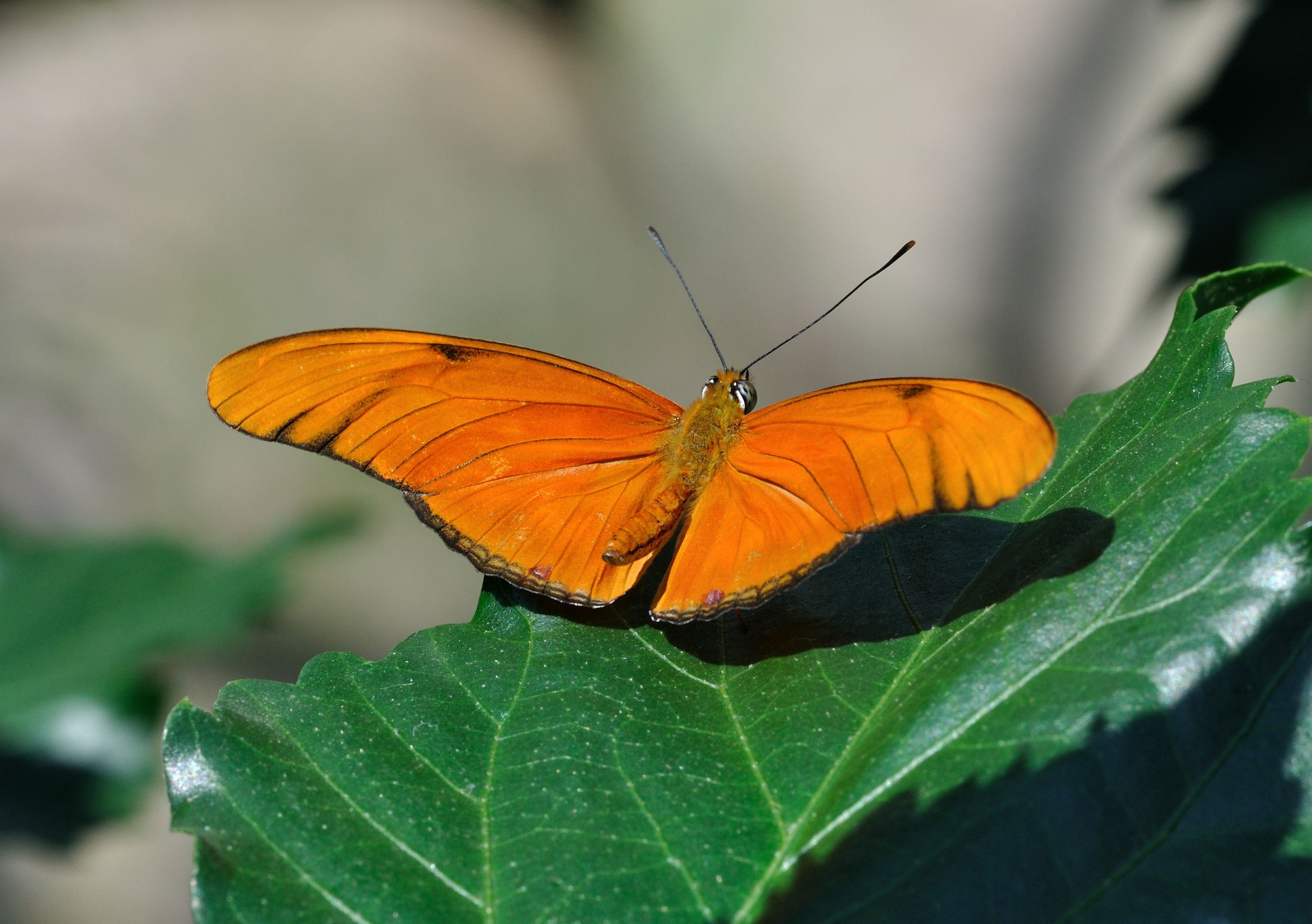 Julia Butterfly (Dryas julia) in the Wilhelma, Stuttgart, Germany.